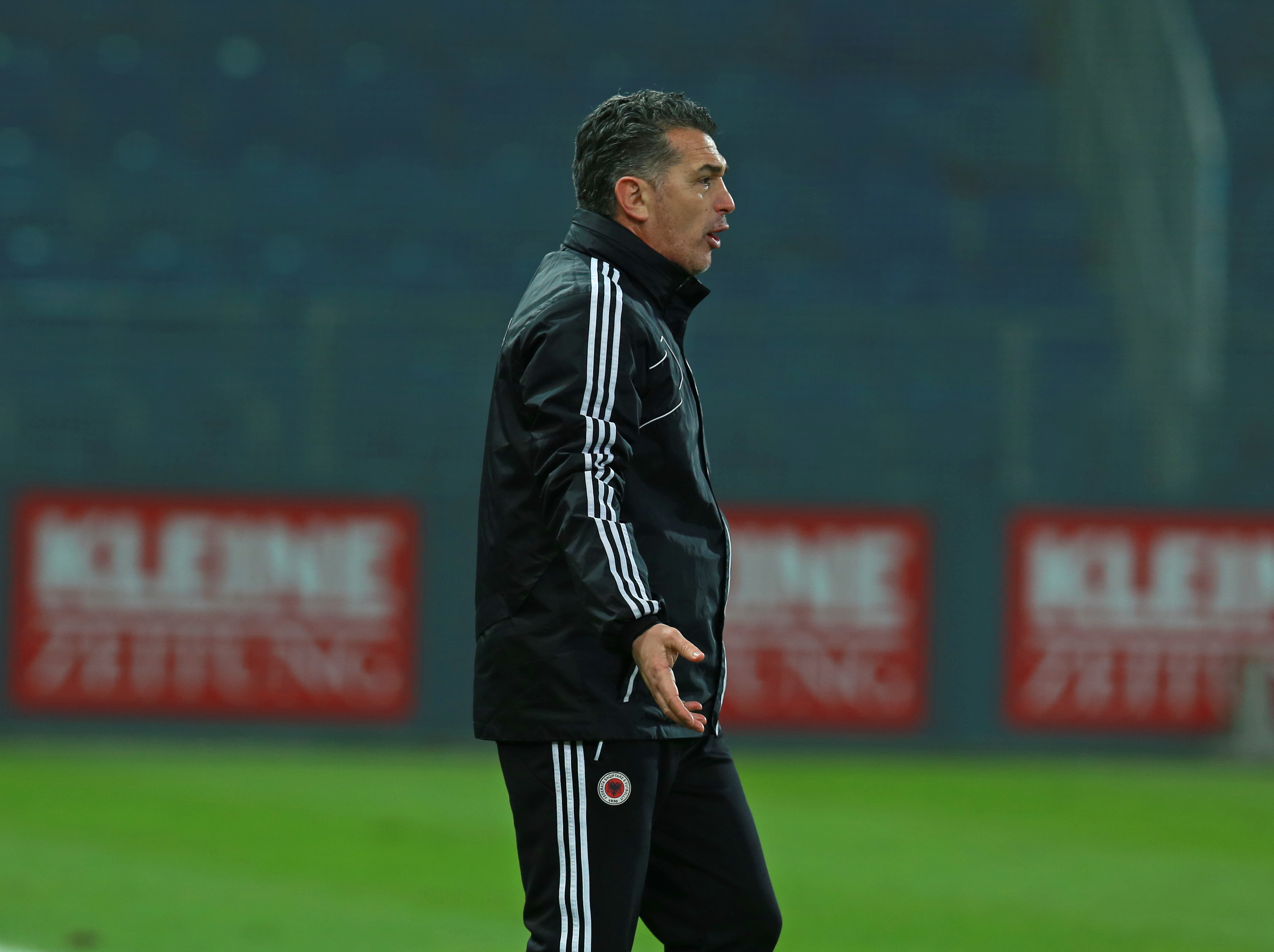 Skënder Gega at the national under-21 football game Albania vs. Austria in Graz, UPC Arena, 5. March 2014